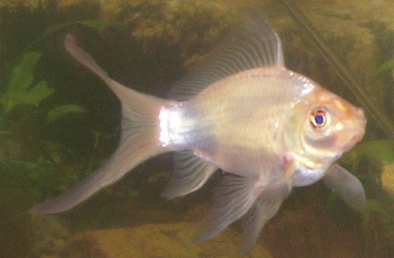 Category:Goldfish images (Original text: White Comet Goldfish.)